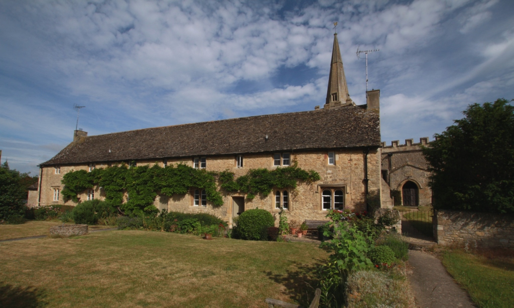 Shellingford, Oxfordshire (formerly Berkshire): Timber Yard Cottages, seen from the southeast, with St Faith's parish church behind